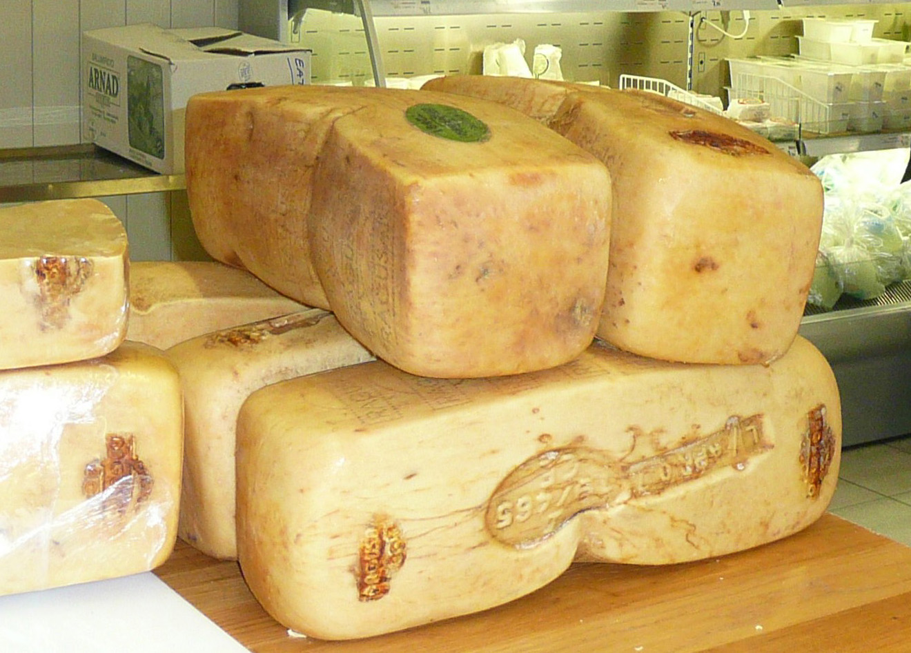 Ragusano is an italian cheese (PDO) made in province of Ragusa.